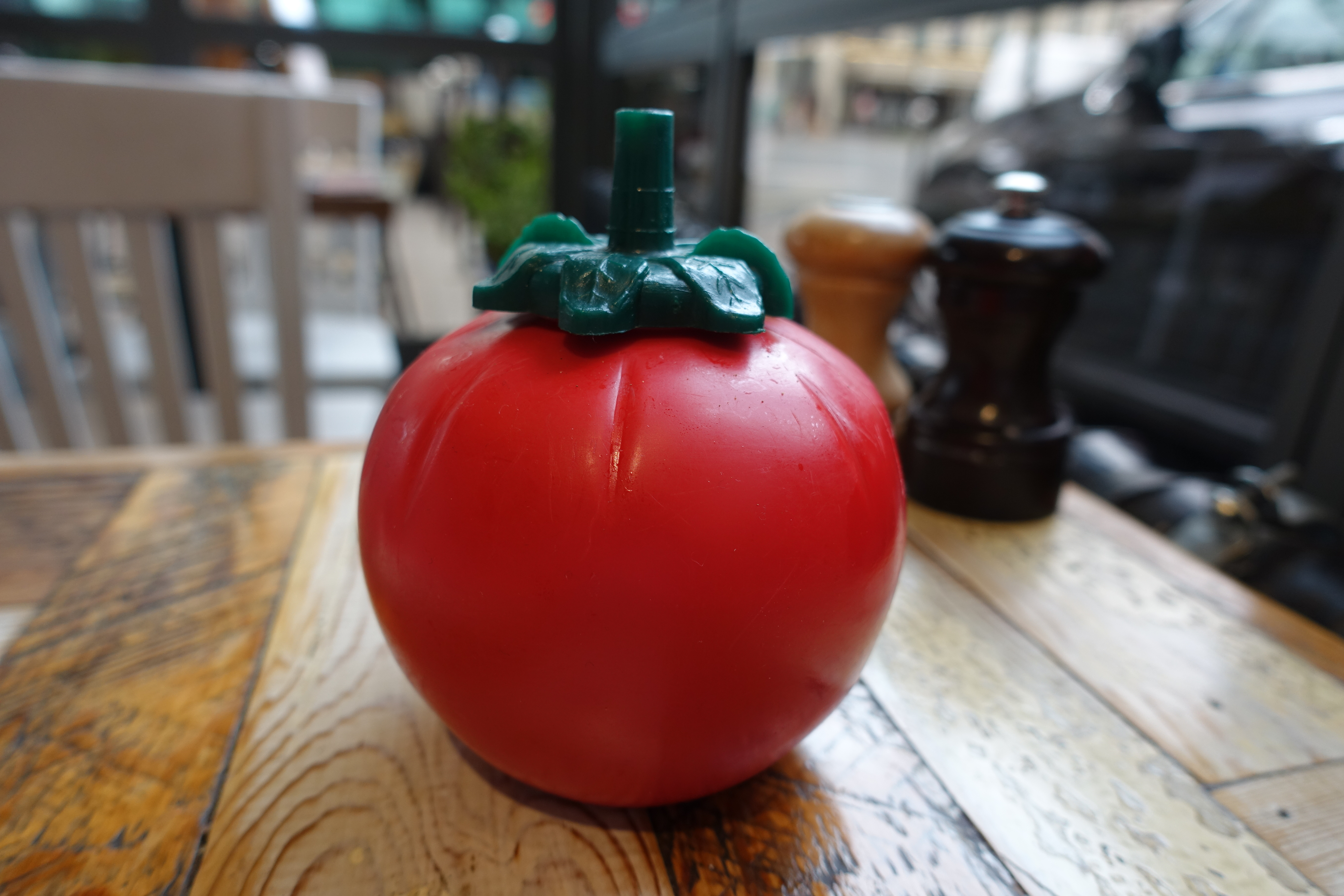 Ketchup bottle @ Bistro Burger @ Montparnasse @ Paris